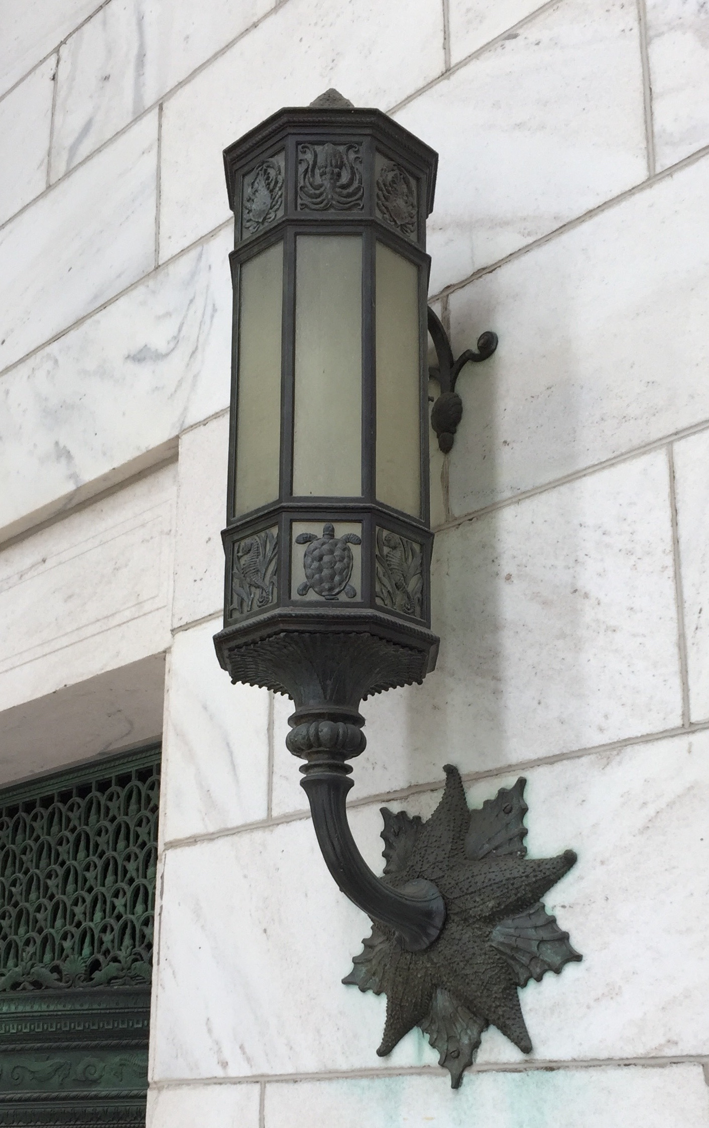 Lamp in the main entrance of the Shedd Aquarium, showing aquatic motifs of turtles, seahorses, and starfish on September 2, 2017.